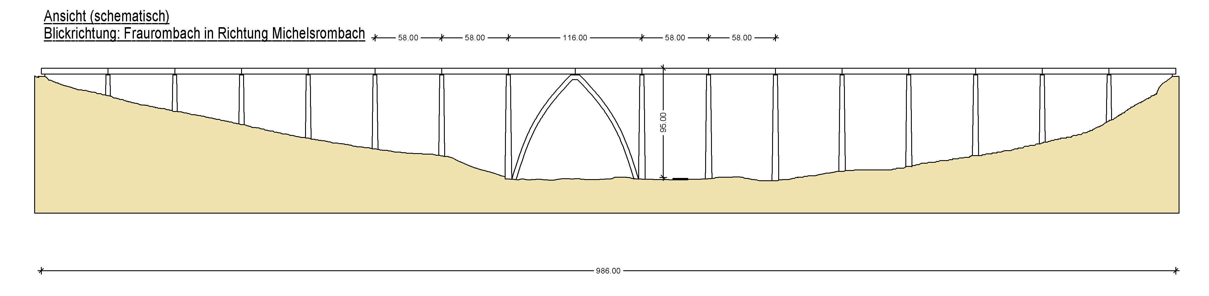 Rombachtalbruecke_ICE high-speed line Hannover-Wuerzburg.